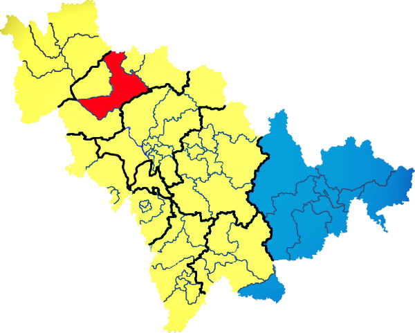 This map shows which areas speak certain languages in Jilin. Yellow - Mandarin Blue - Korean Red - Mongolian